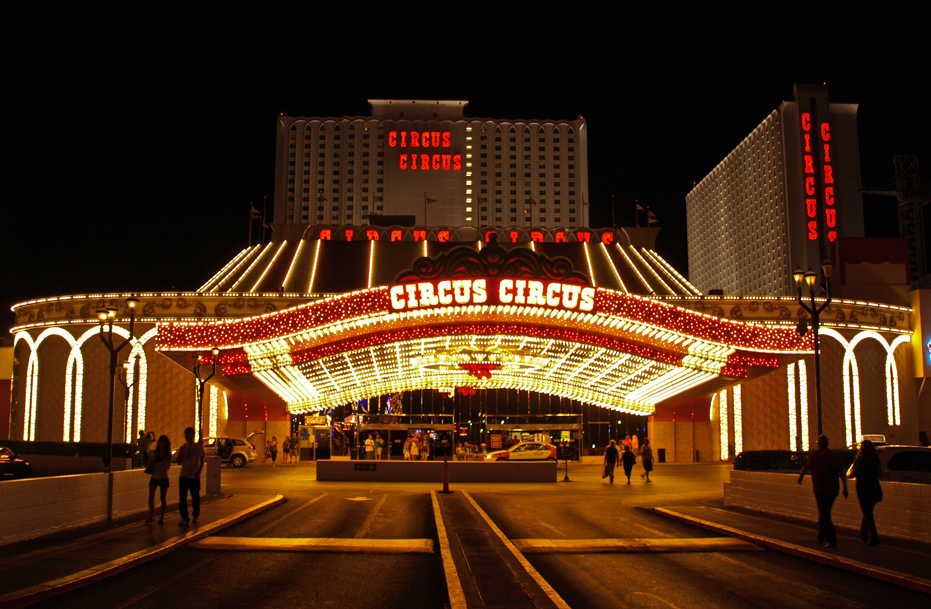 Circus Circus, hotel and casino located on Las Vegas (Nevada, United States)